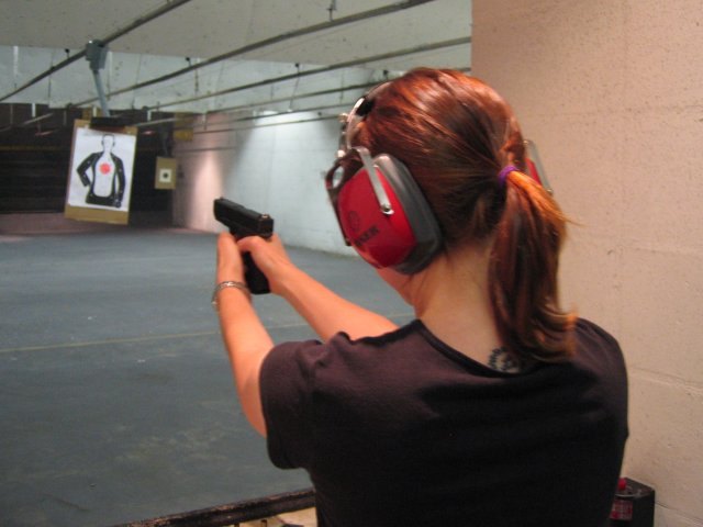 Indoor Shooting Range at Sarasota, Florida, USA. Taken by Kenn. Shooting a Glock 23 (.40 S+W)Ratha takes aim